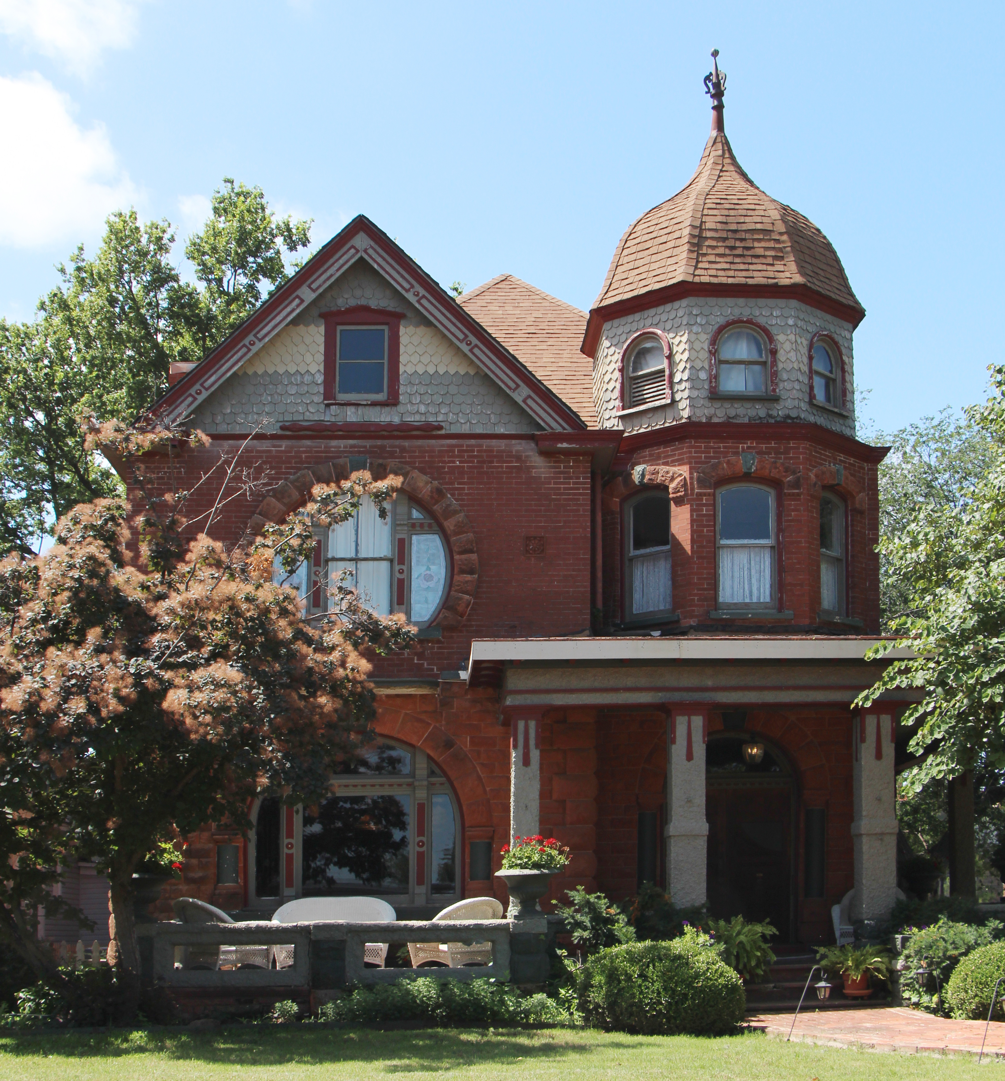 Foucart Residene, Guthrie, Oklahoma